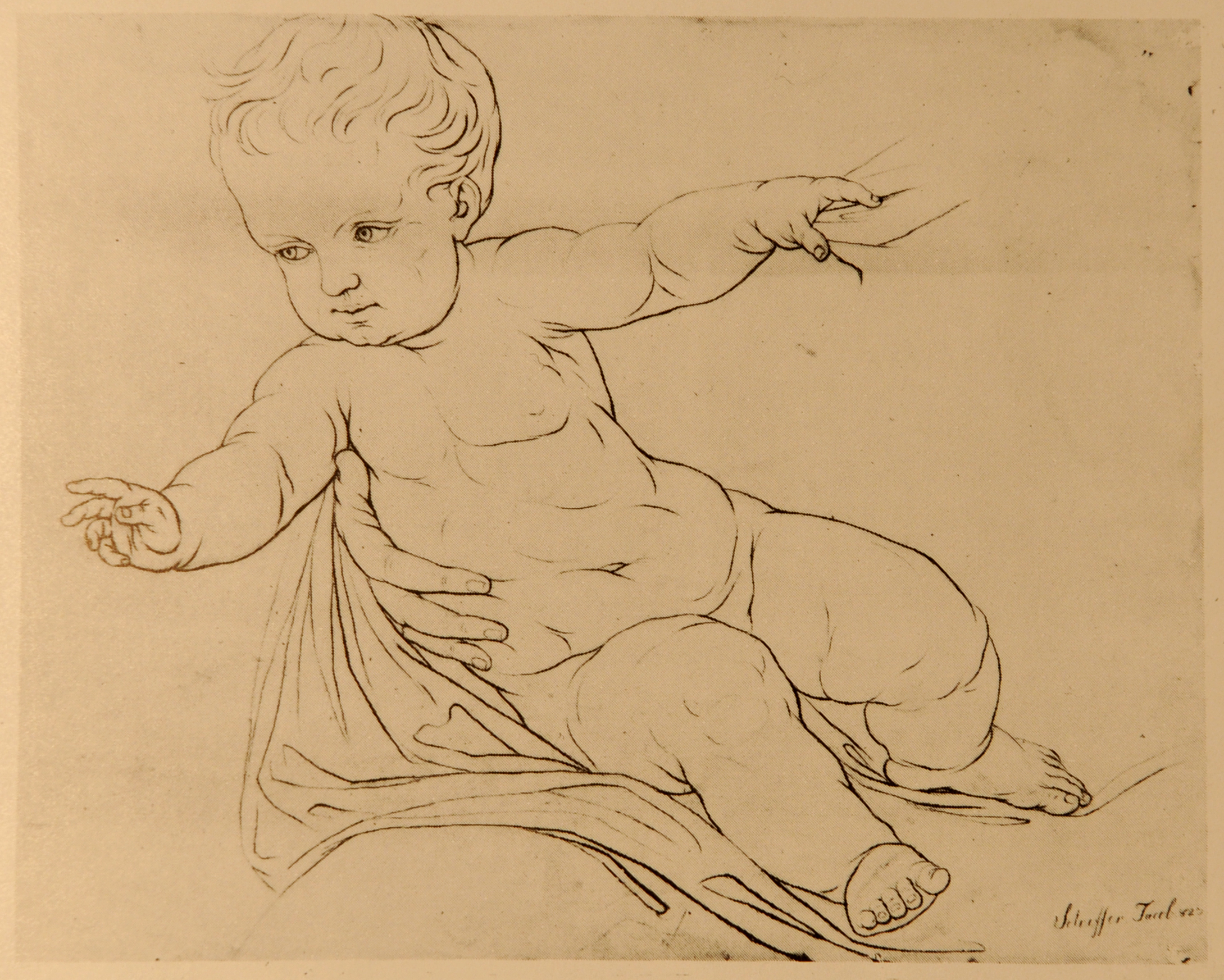 Drawing by Jakob Sotriffer around 1820